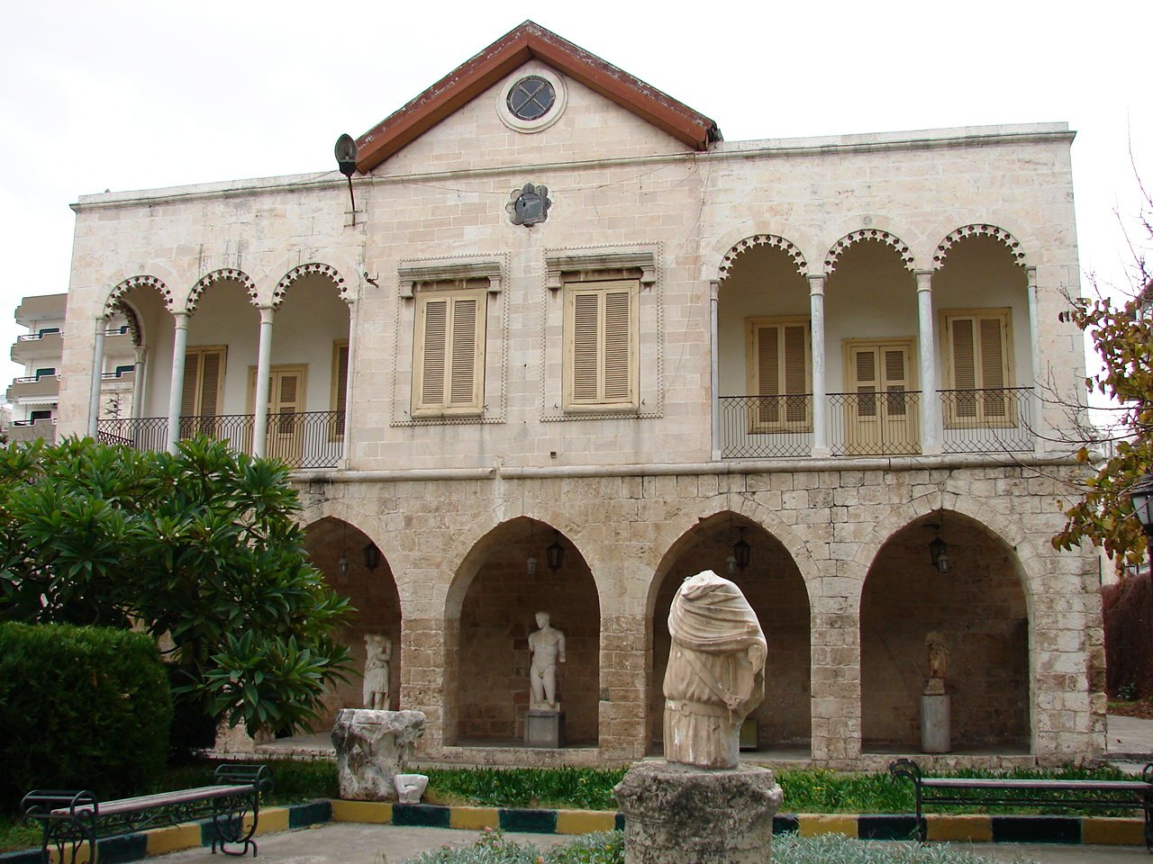 Museum of Latakia — Latakia, northwestern Syria.